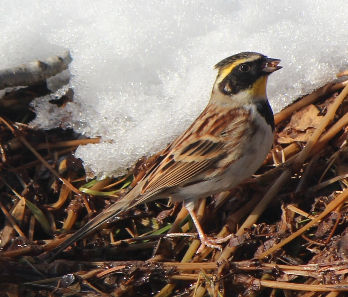 Emberiza elegans (Yellow-throated Bunting) eating seed, male in Japan.